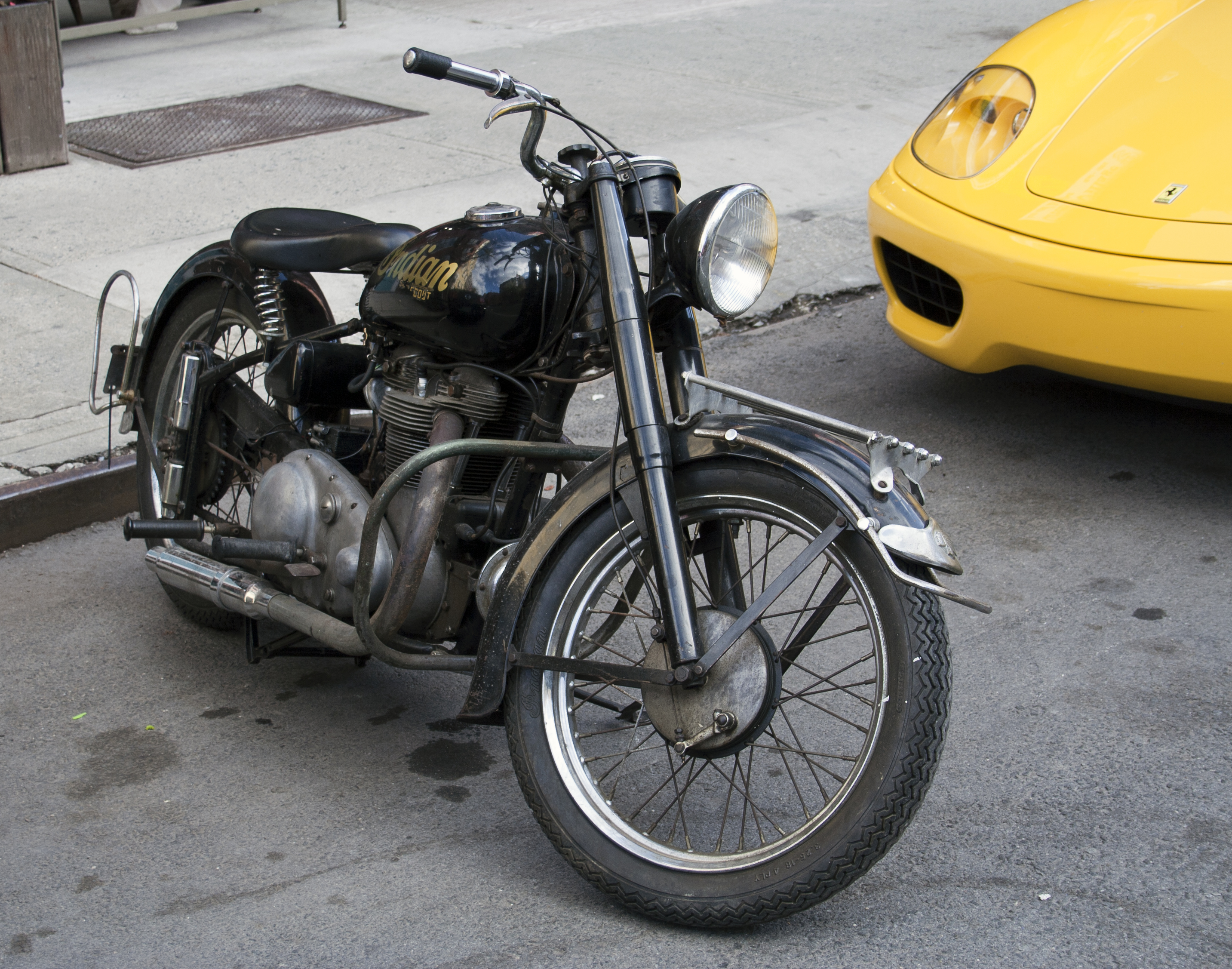 1949-1952 Indian Model 249 Super Scout in good company